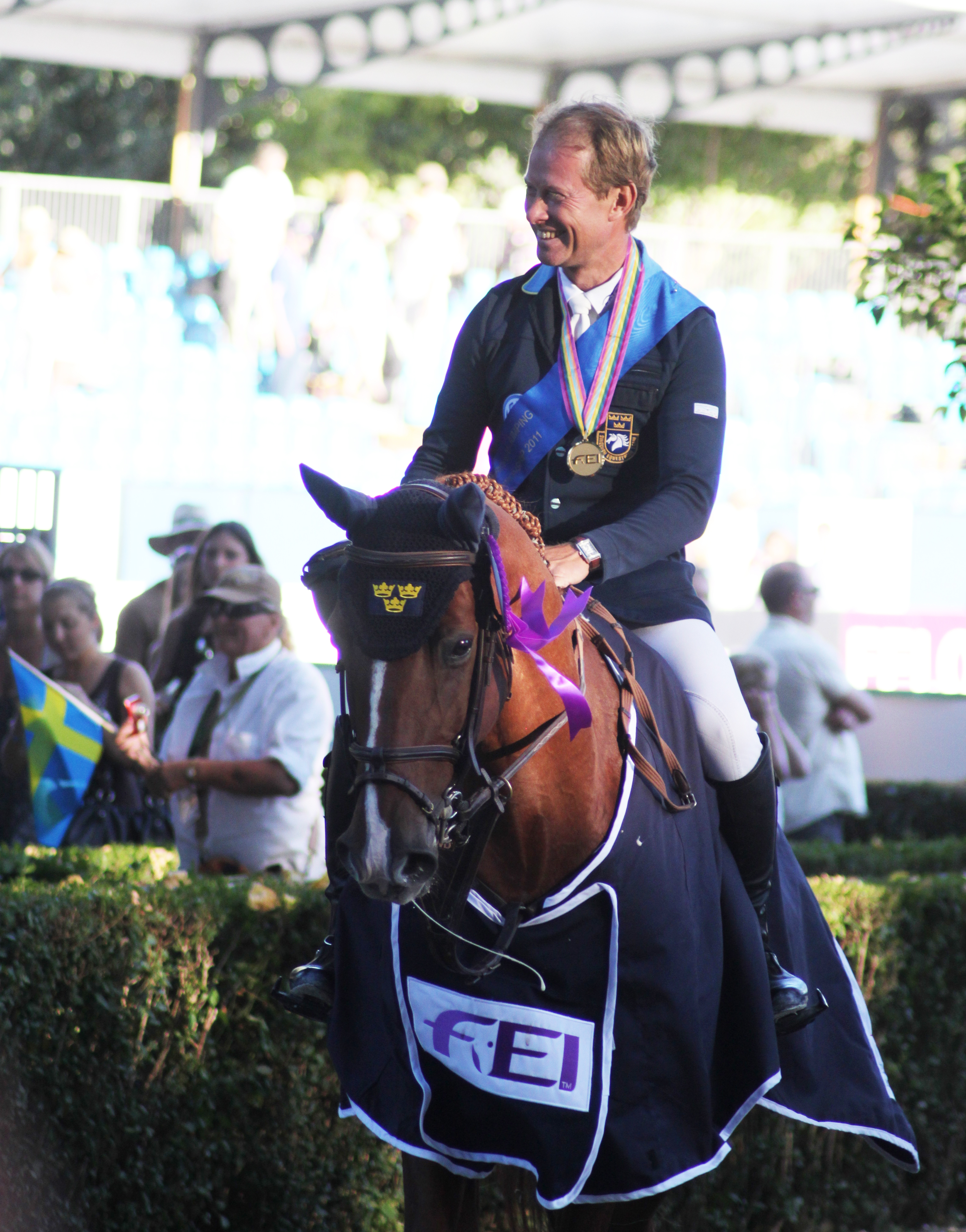 Swedish show jumper Rolf-Göran Bengtsson and Ninja La Silla after winning the individual competition at the 2011 European Show Jumping Championship, in Madrid, Spain.